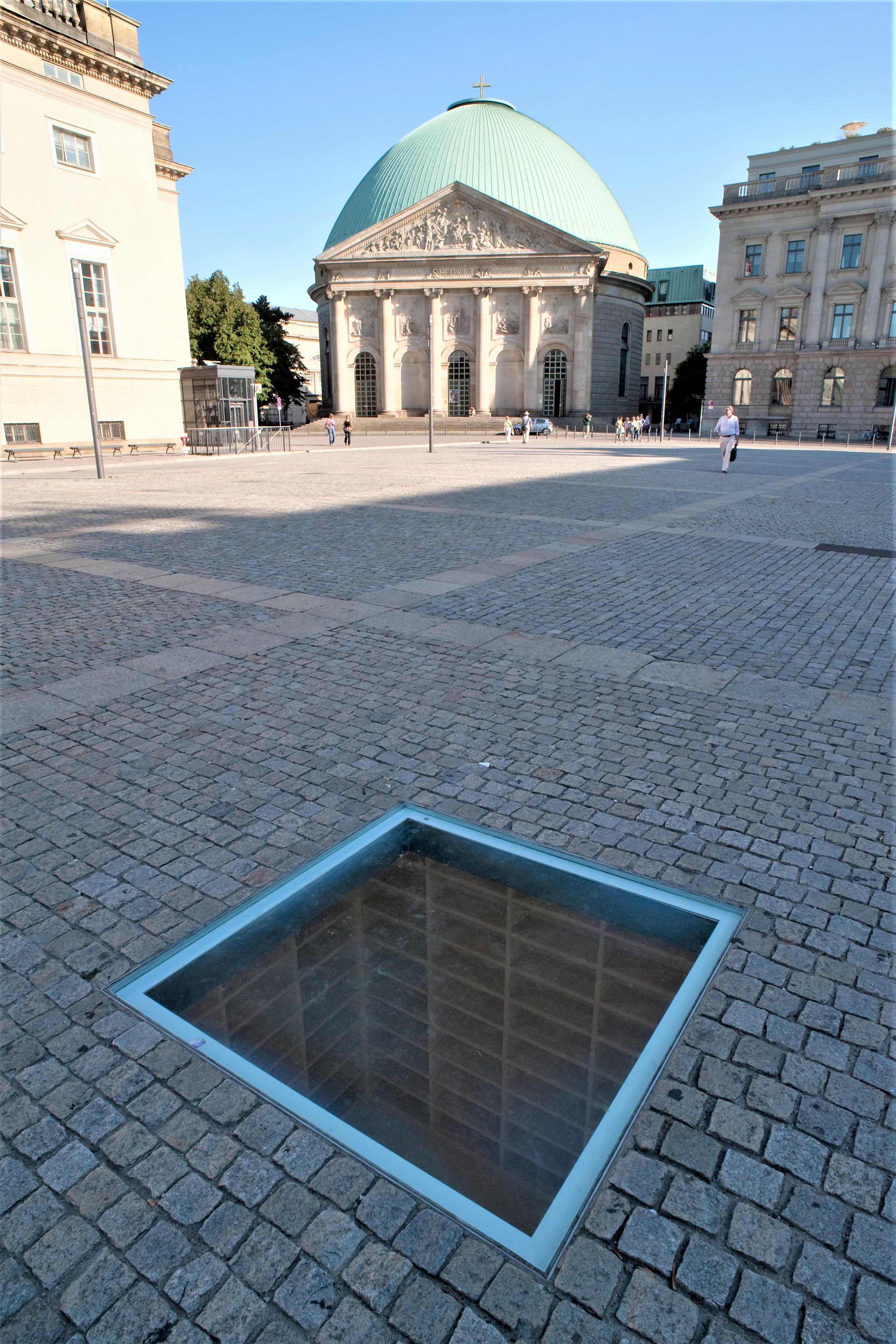 Memorial to the Nazi-era book burnings at the Bebelplatz in Berlin, Germany. Saint Hedwig's Cathedral is in the background)